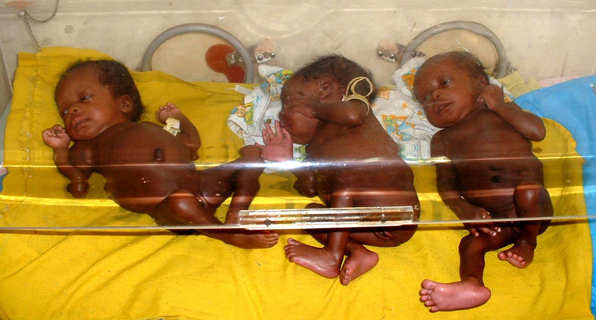 Recently-born triplets in an incubator at ECWA Evangel Hospital, Jos, Nigeria